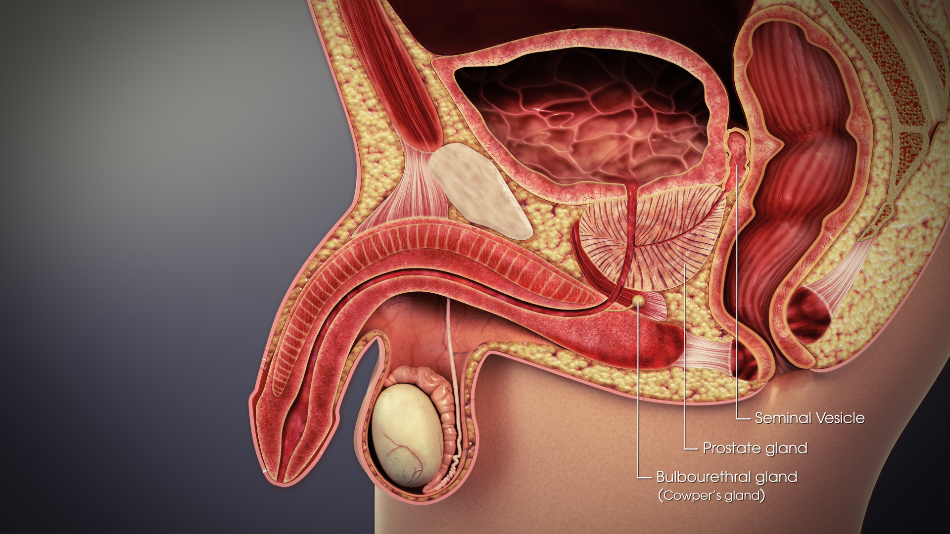 The detailed structure and male reproductive system and it's accessory gland depicted in a 3D medical illustration.